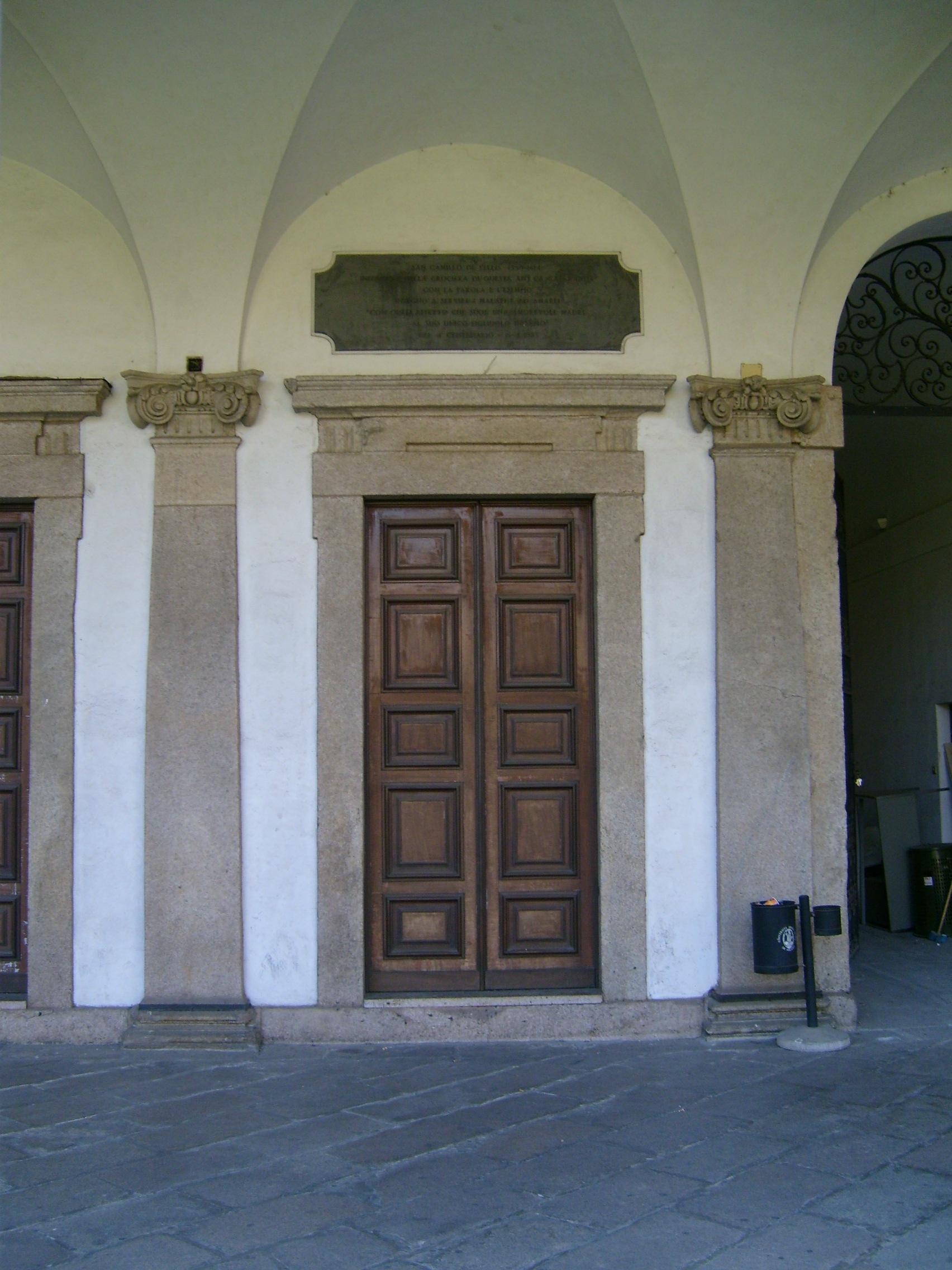 1983 plaque on the facade of the Chapel of "Santissima Annunziata" at the Università Statale (State University) in Milan, Italy. It commemorates the fact that surgeon-Saint Camillus de Lellis (1550-1614) worked here when this building housed a hospital.